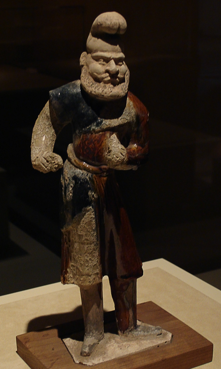 Tri-coloured figurine of a foreigner Tang Dynasty (A.D. 618 - 907) Excavated at Xi'an, Shaanxi Province, 1955 This figure represents a foreign stableman from the Western Region of China. The presence of foreigners indicates economic and cultural exchanges between China and Western Asia during the Tang era.